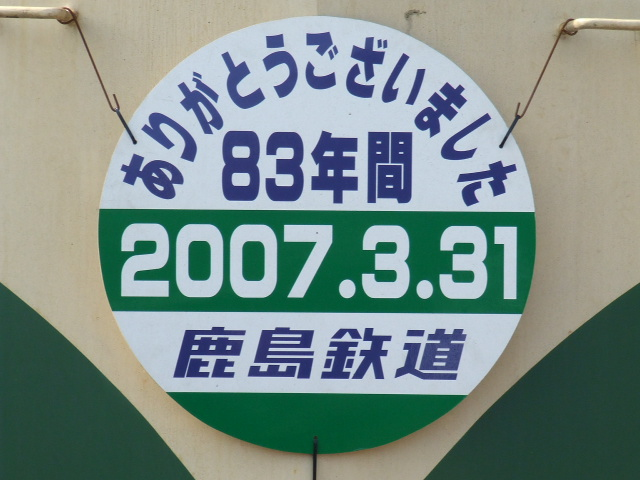 Head Mark of Good-bye, Kashima Railway, Japan